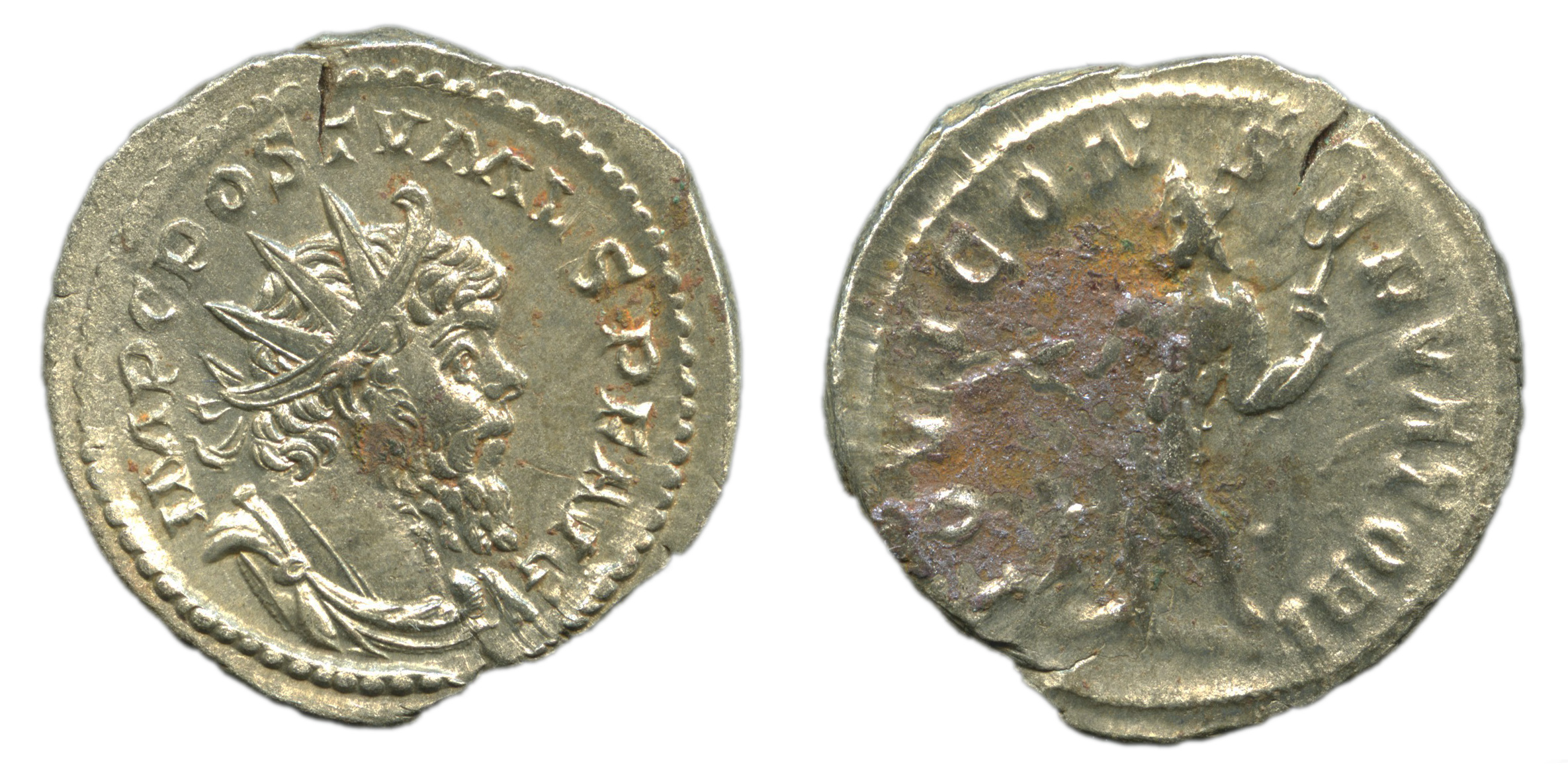 144 Roman base silver radiate coins and one Roman base silver denarius coin and 32 fragments of coarse ware pottery, the remains of the vessel that contained the coins. Treasure case no. 2016 T341. Severus Alexander (AD 222-35), 1 (denarius) Gordian III (AD 238-44), 6 Philip I (AD 244-9), 4 Decius (AD 249-51), 1 Trebonianus Gallus (AD 251-3), 3 Volusian Augustus, 1 Valerian and Gallienus (joint reign) (AD 253-60) Valerian I, 6 Gallienus, 14 Salonina, 5 Valerian Caesar, 2 Divo Valeriano, 2 Saloninus, 2 Gallienus (sole reign) (AD 260-8): Salonina, 1 Gallic Empire: Postumus (AD 260-9), 95 Irregular, 2